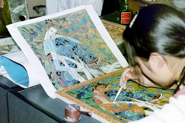 Cloisonne process - adding frit from a fluid dropper in conformance with a master pattern. Copper colored segments have not yet been filled. Picture taken at an official state production facility. Picture taken late September 2002 by Leonard G.